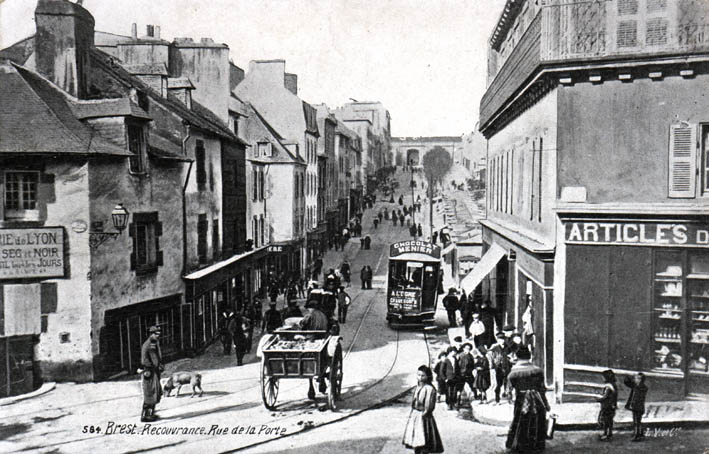 Rue de la Porte, the main street of Recouvrance district in Brest, France, at the turn of the 19th century